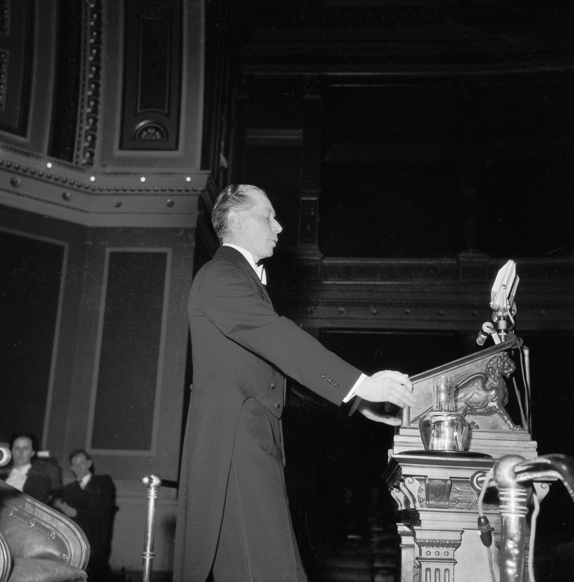 Swedish professor Carl Arvid Hessler